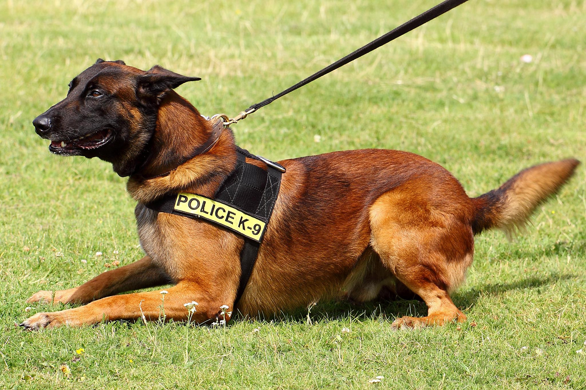 Military Working Dog - American Air Day 2012